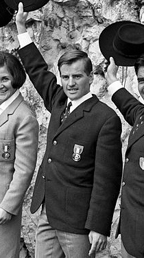 Felice De Nicolo after returning from the Alpine World Ski Championships of Portillo in Chile. Selva di Val Gardena, August 1966